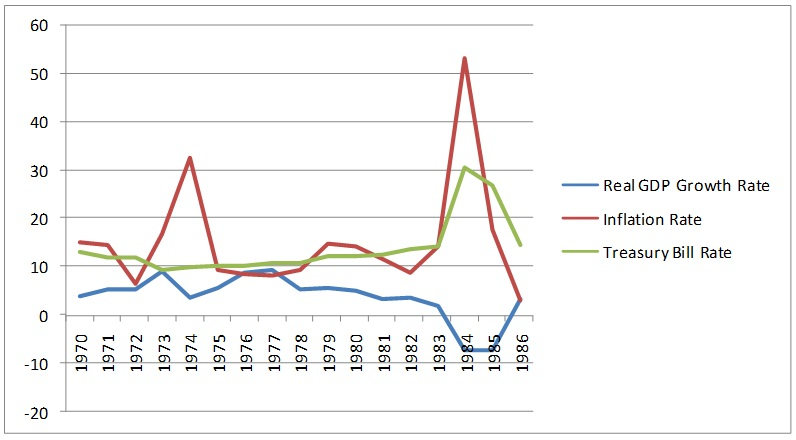 Under Marcos Era